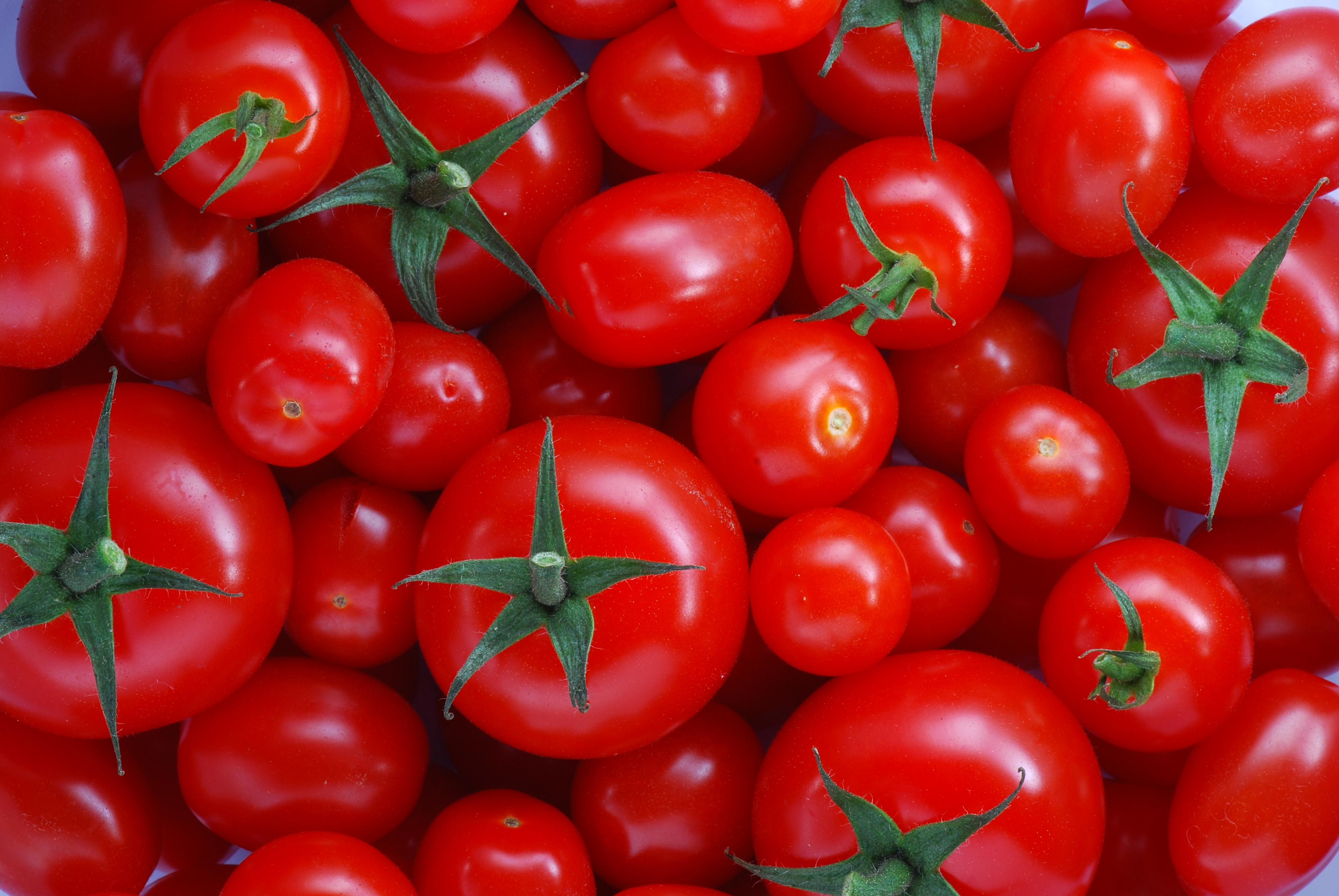 Flash-lit macro tomatoes. The tomatoes are shot from directly above, and lit by two CLS triggered SB-600s bounced off white card; there's a picture of the setup here.